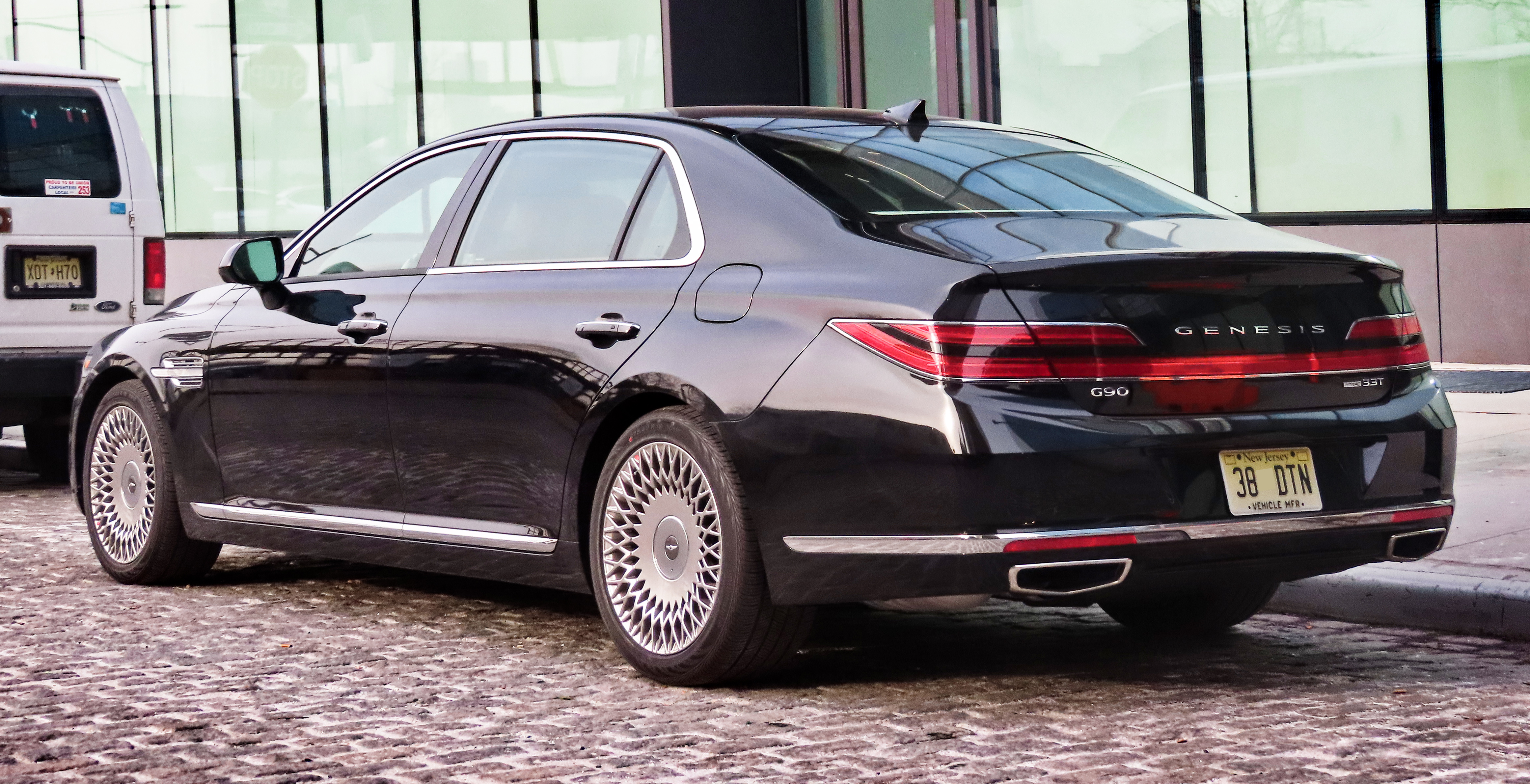 A 2020 Genesis G90 facelift photographed in Meatpacking District, Manhattan, New York, USA